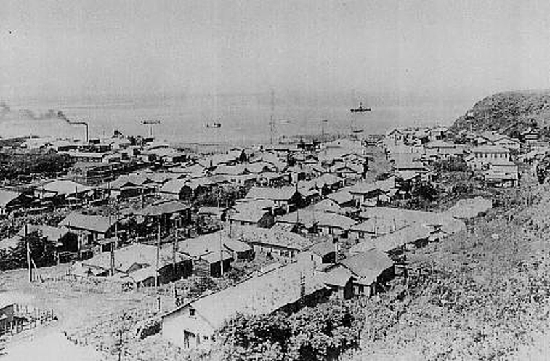 Shana Village in Etorofu island (the Russian name is "Iturup"). Sana in the early Showa era, before 1945. In the foreground is the village hospital, in the back left is the Etorofu Fisheries factory, and in the center is the radio tower of the post office. Standing at home is a radio receiving antenna. The receiver was battery-powered.